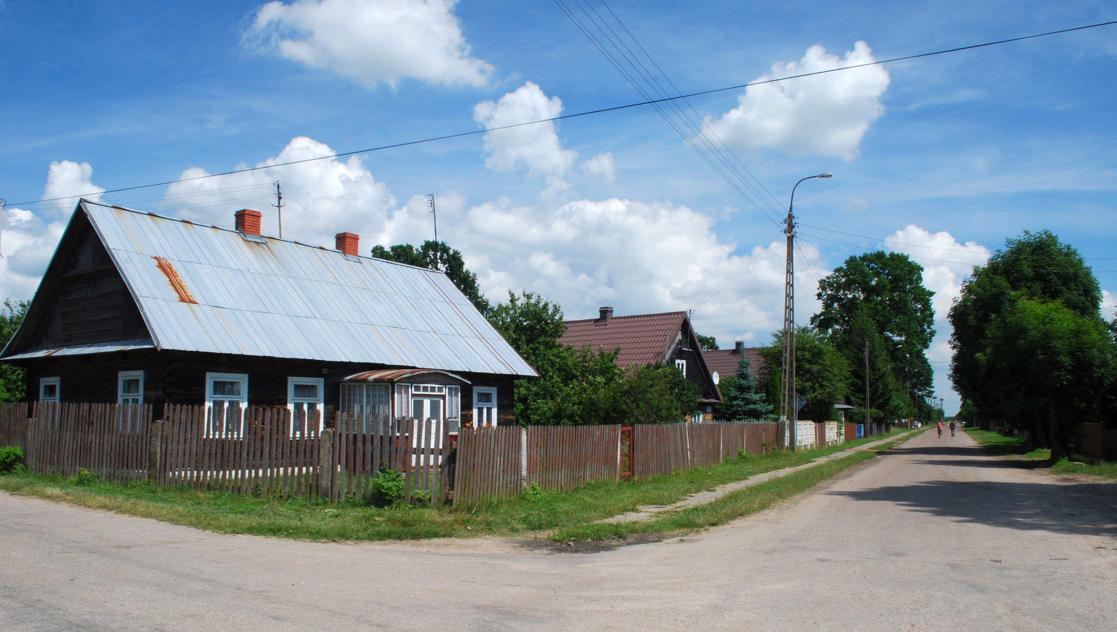 This photo from Podlaskie Voievodeship was taken during Polish Wikiexpedition 2009 set up by Wikimedia Polska Association. The making of this document was supported by Wikimedia Polska. Szymki.